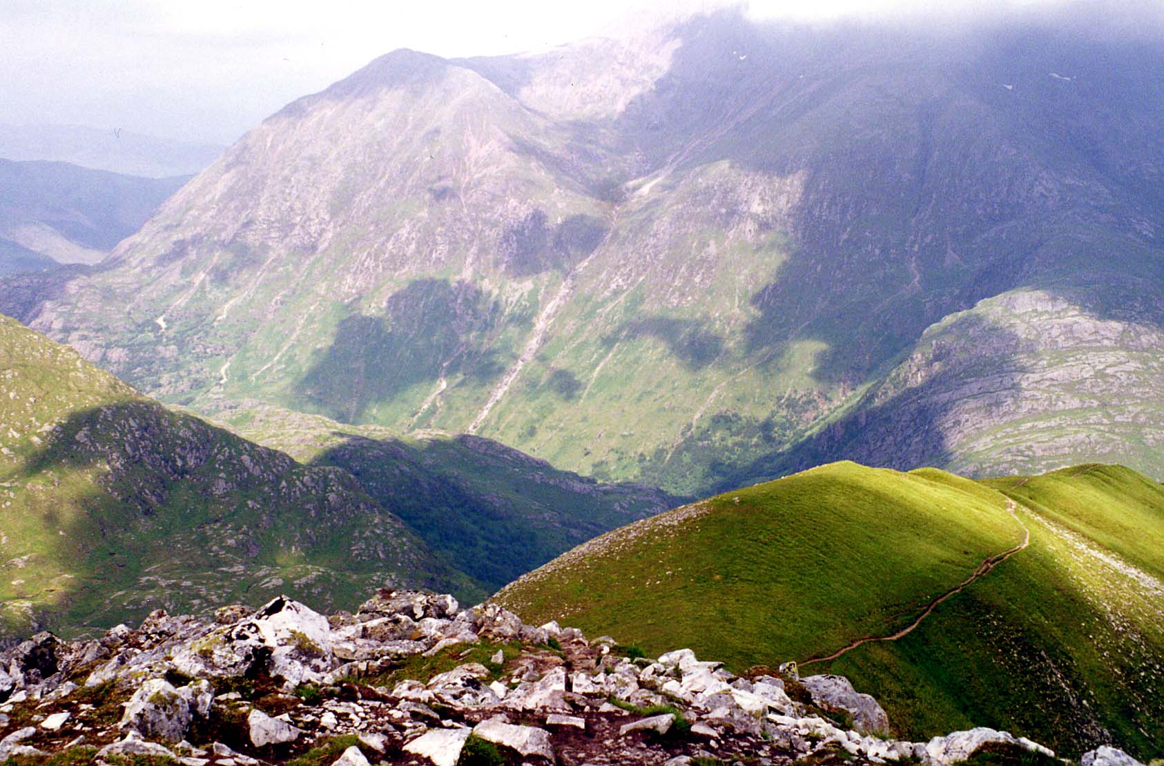 Personal picture taken by Mick Knapton